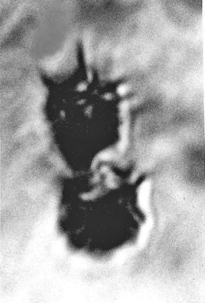 Photo and drawing of Spiromastigites acanthodes n. gen., n. sp. N = nucleus. Bar = 5 μm